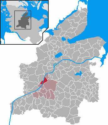 Locator maps of municipalities in Schleswig-Holstein - District Rendsburg-Eckernförde